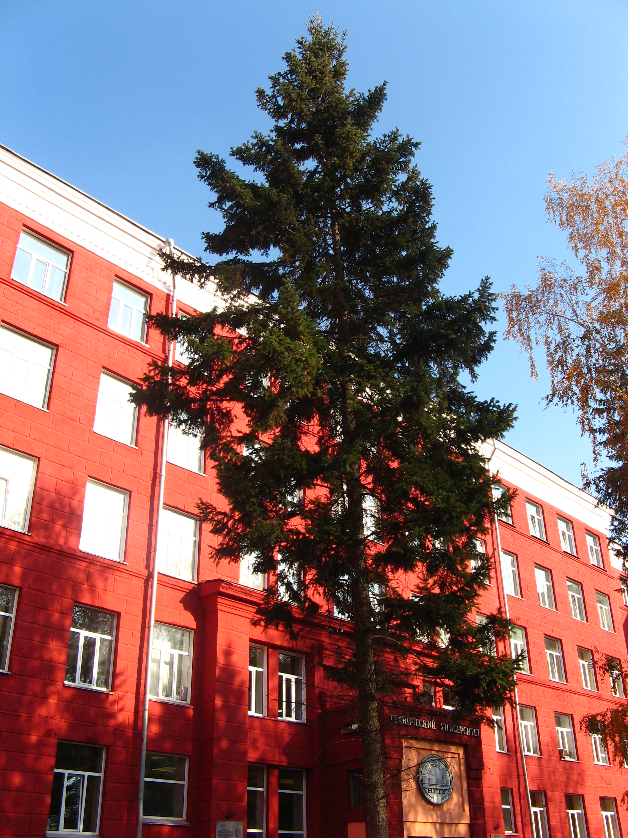 Novosibirsk State Technical University (NSTU), Main Building